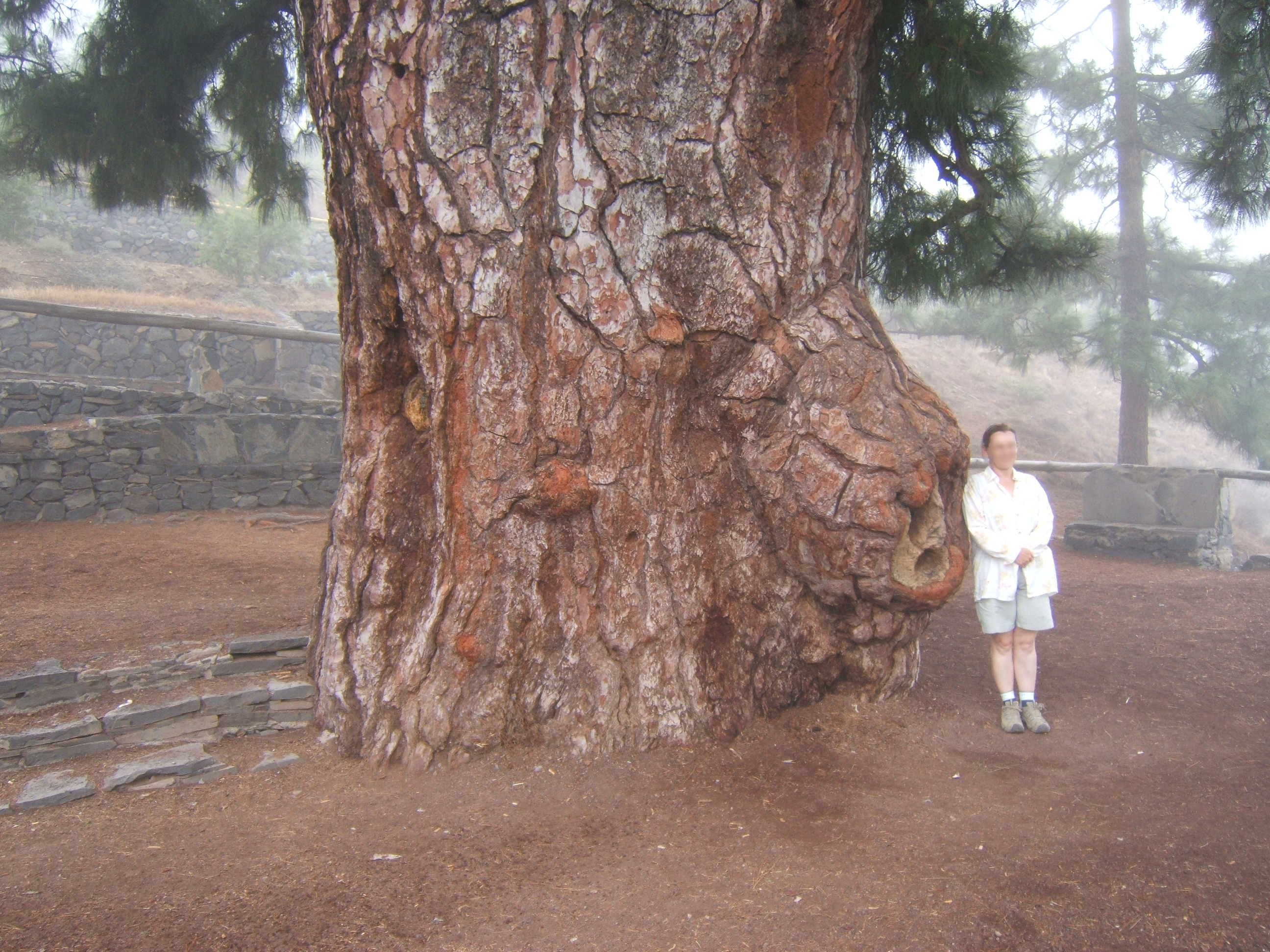 Pinus canariensis near Vilaflor, Tenerife.